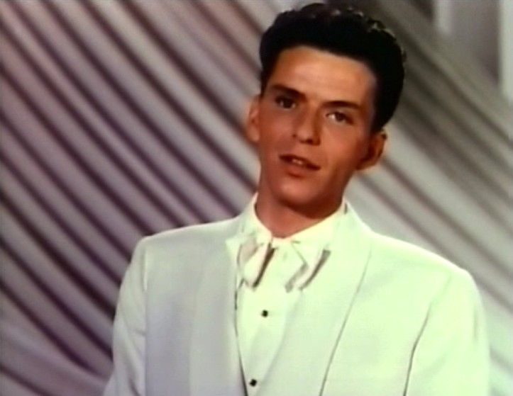 Cropped screenshot of Frank Sinatra from the film Till the Clouds Roll By.